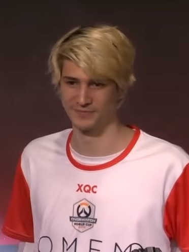 xQc at the 2018 Overwatch World Cup.